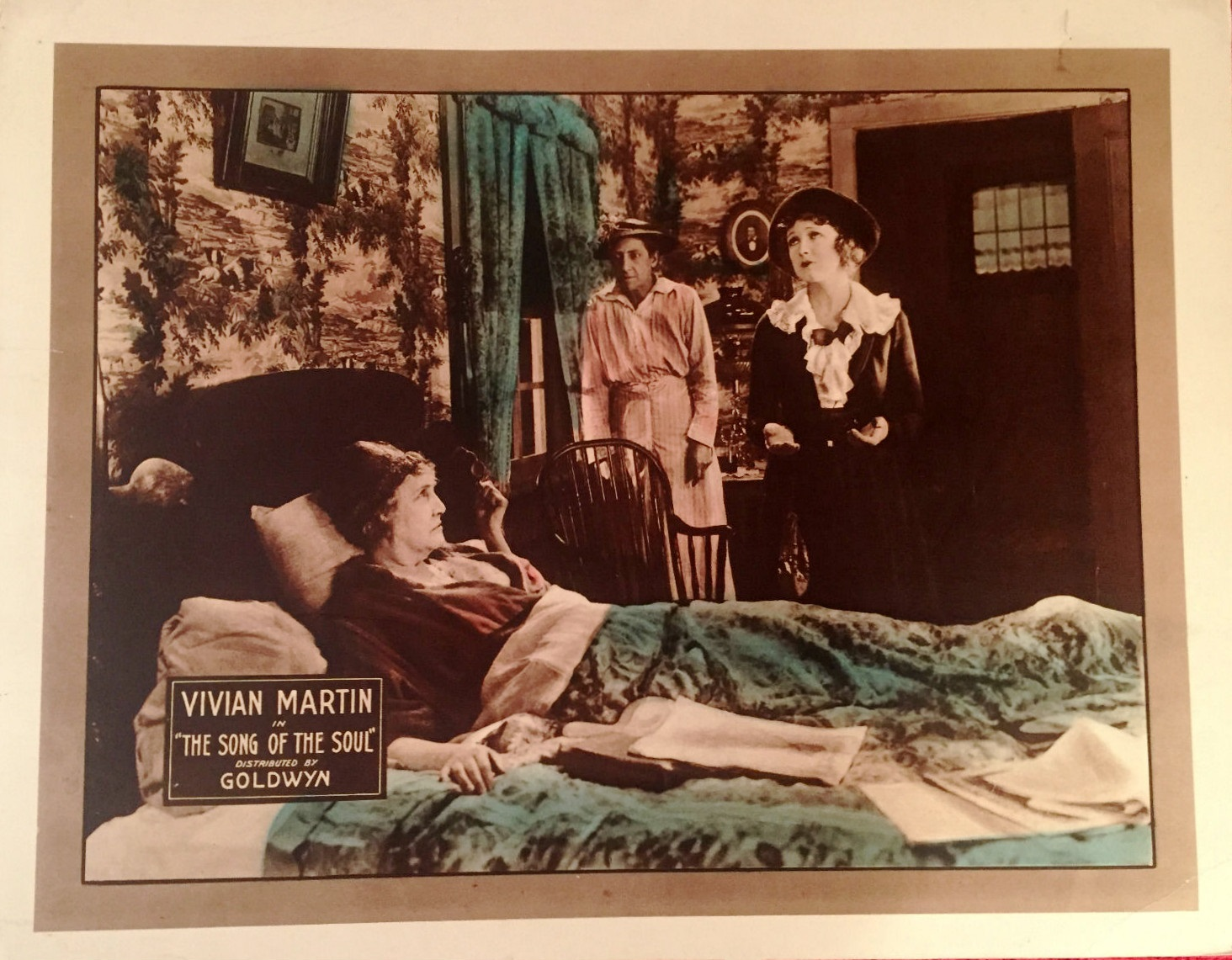 Lobby card for the American drama film The Song of the Soul (1920).